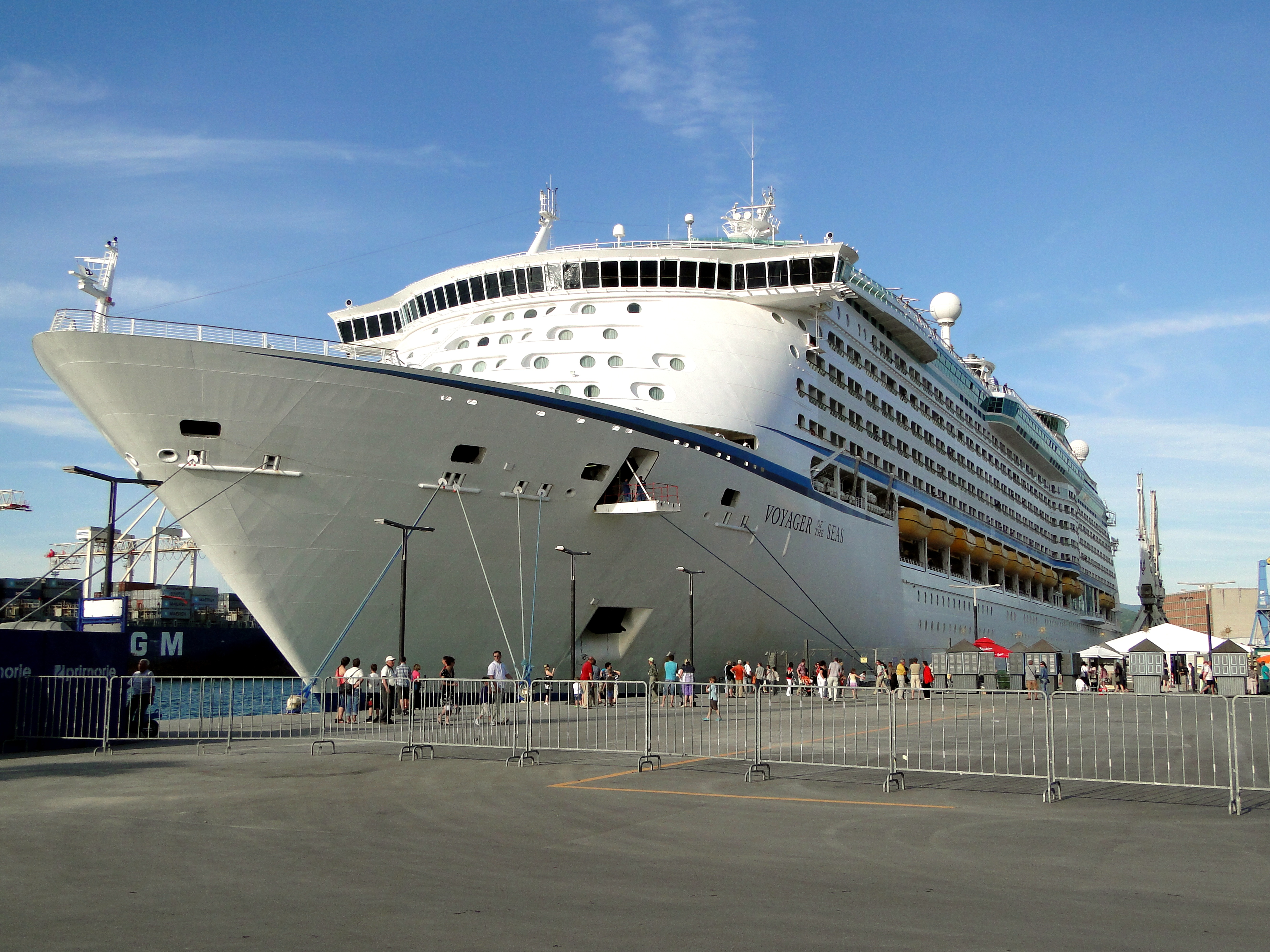 Koper.